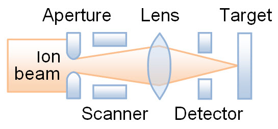 Scanning a fraction of the accelerated ion beam over the sample surface using a focusing lens.